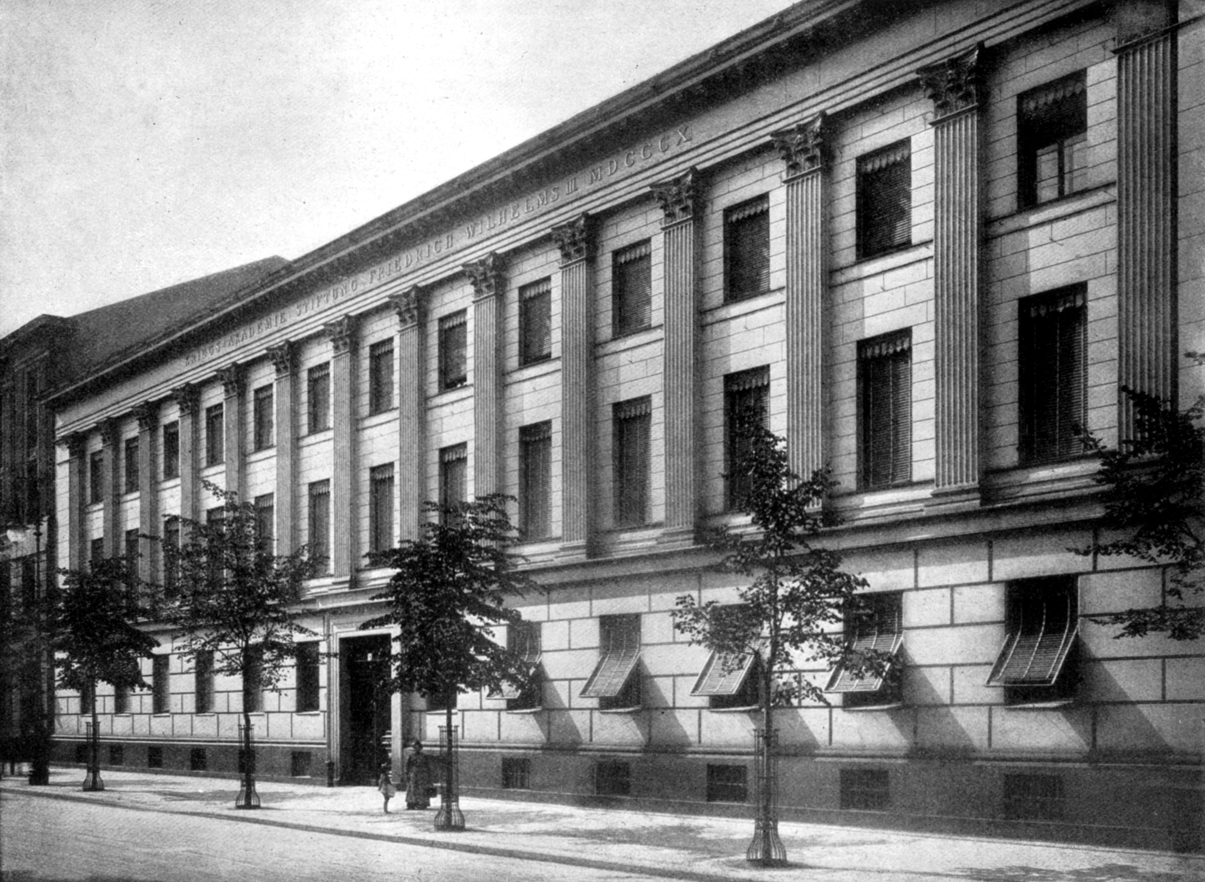 Berlin - Prussian war academy, Unter den Linden 74, after change of residence comming from the street Burgstrasse.